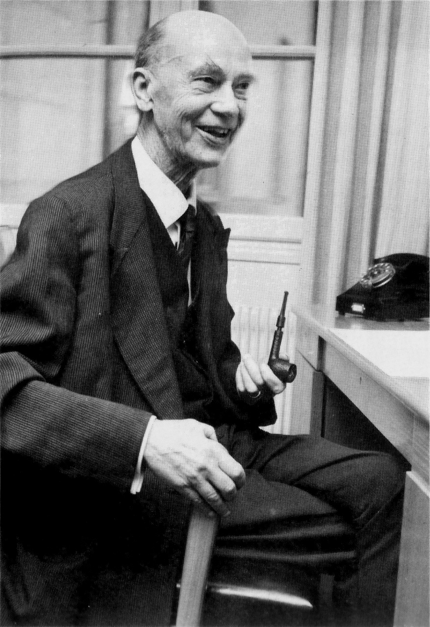 Rickard Sandler, Prime Minister of Sweden 1925–1926.